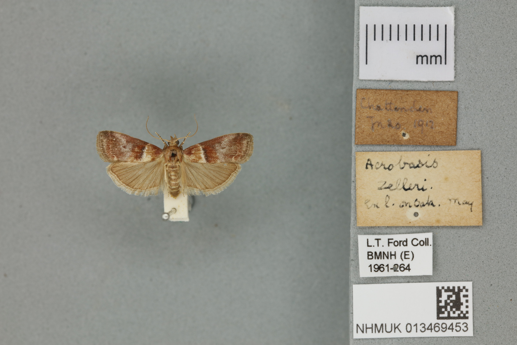 Pyralid moth pinned Acrobasis repandana (Fabricius, 1798)